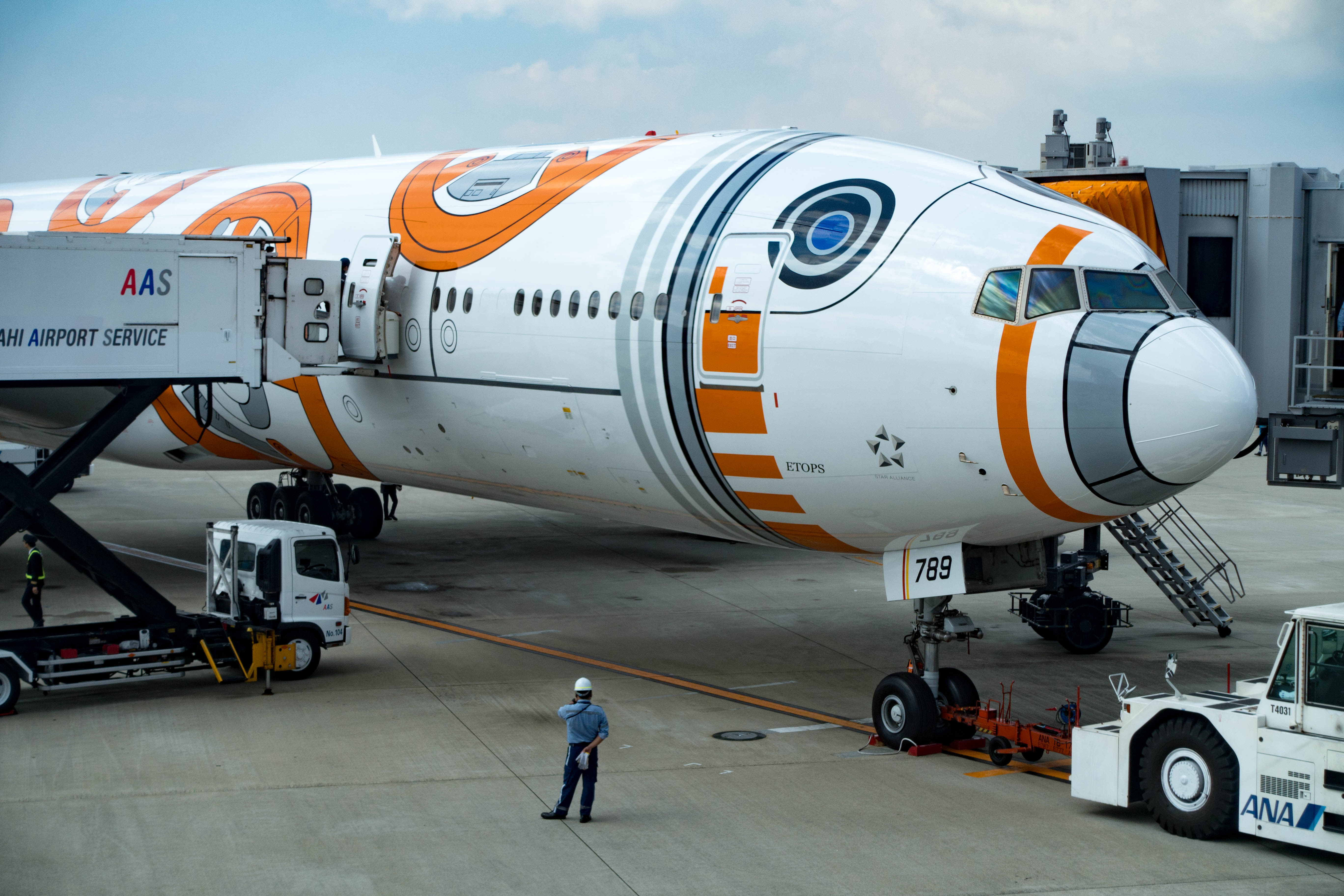 All Nippon Airways (Star Wars - BB-8 livery) Boeing 777 at Osaka International Airport